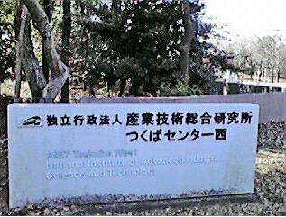 In front of AIST Tsukuba center west in Tsukuba,Ibaraki,Japan.